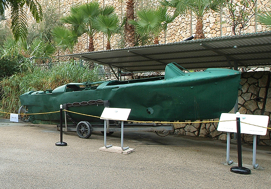 Maiele, Israel Defense Forces